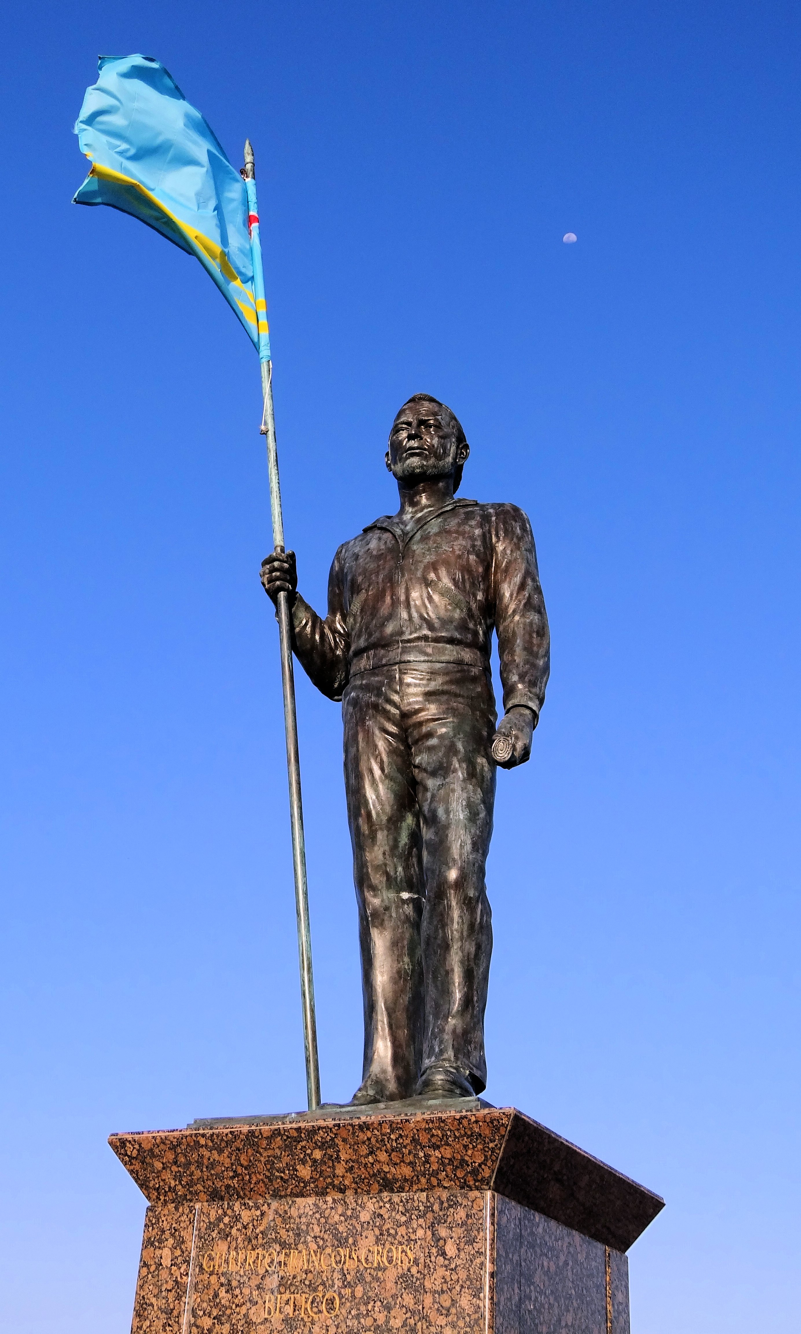 A monument on Plaza Libertador in Oranjestad, Aruba, showing "father of the nation" Gilberto Francois Croes holding an Aruban flag.